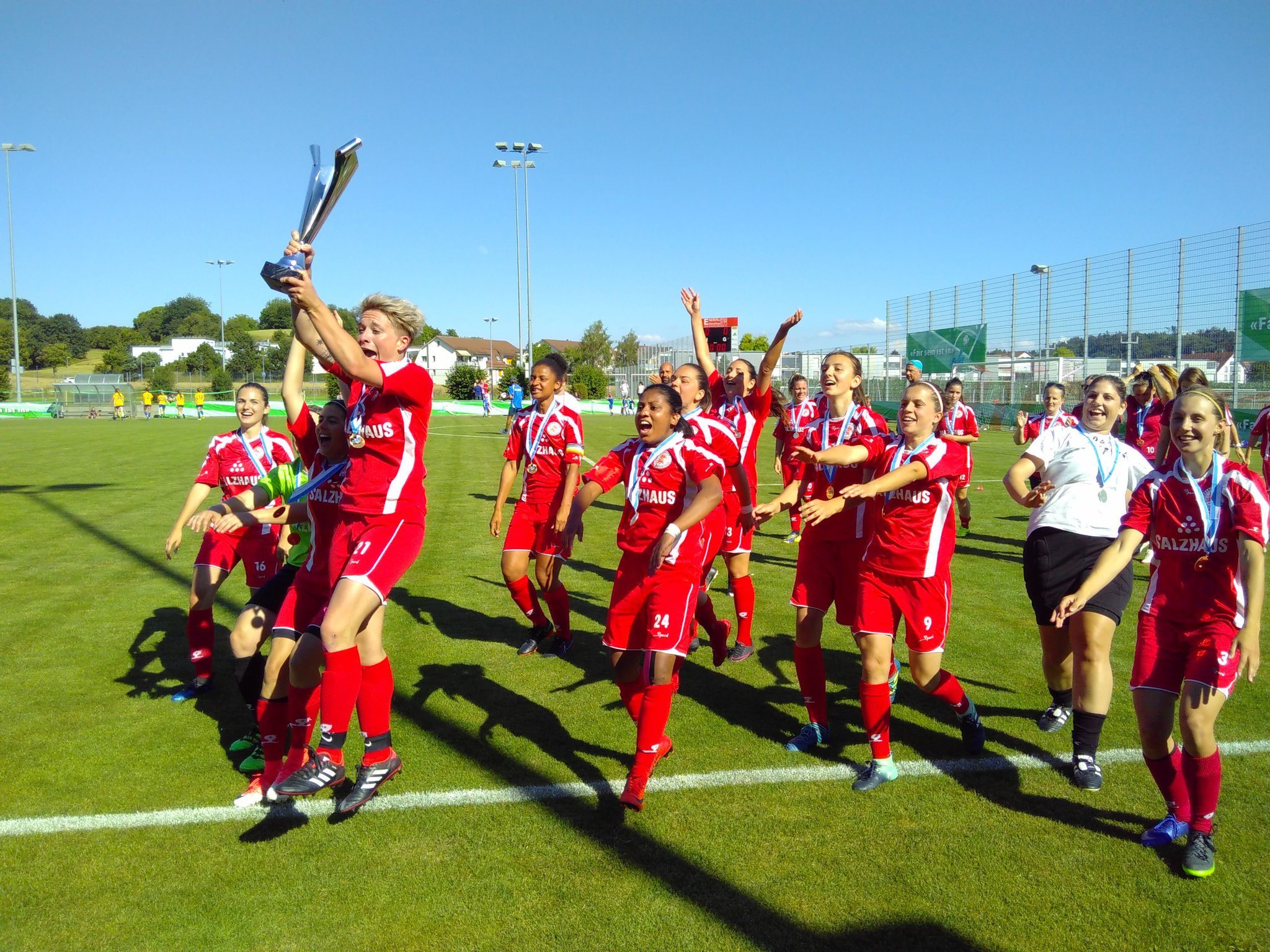 The FCW-women after the winning of the Axpo-Cup (cup competition of FVRZ - Fussballverband Region Zürich)